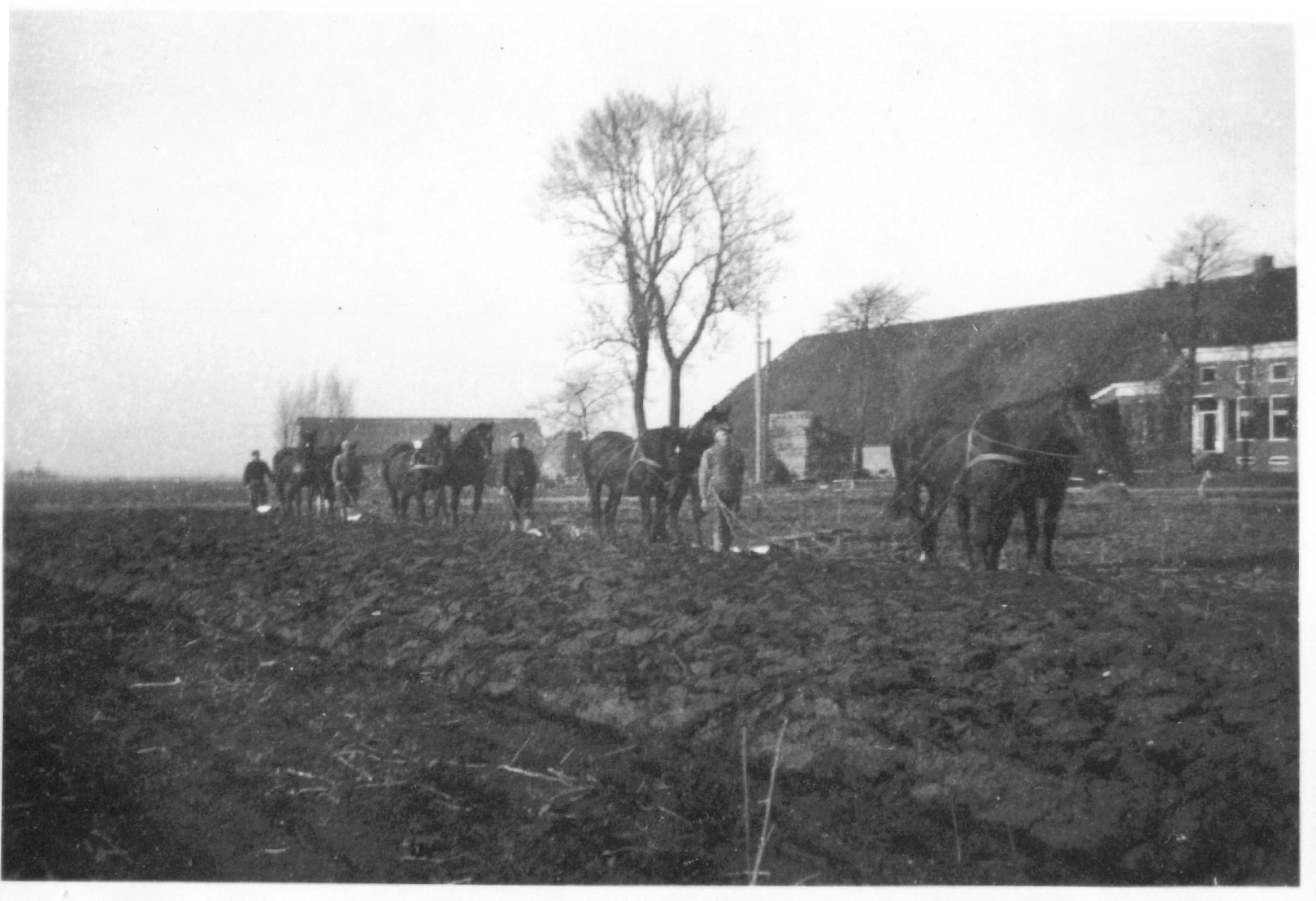 Farm workers plowing. Nieuw-Scheemda, NL, Hamrikkerweg 14, about 1947